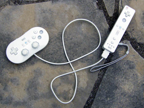 Wiimote with its Classic controller.